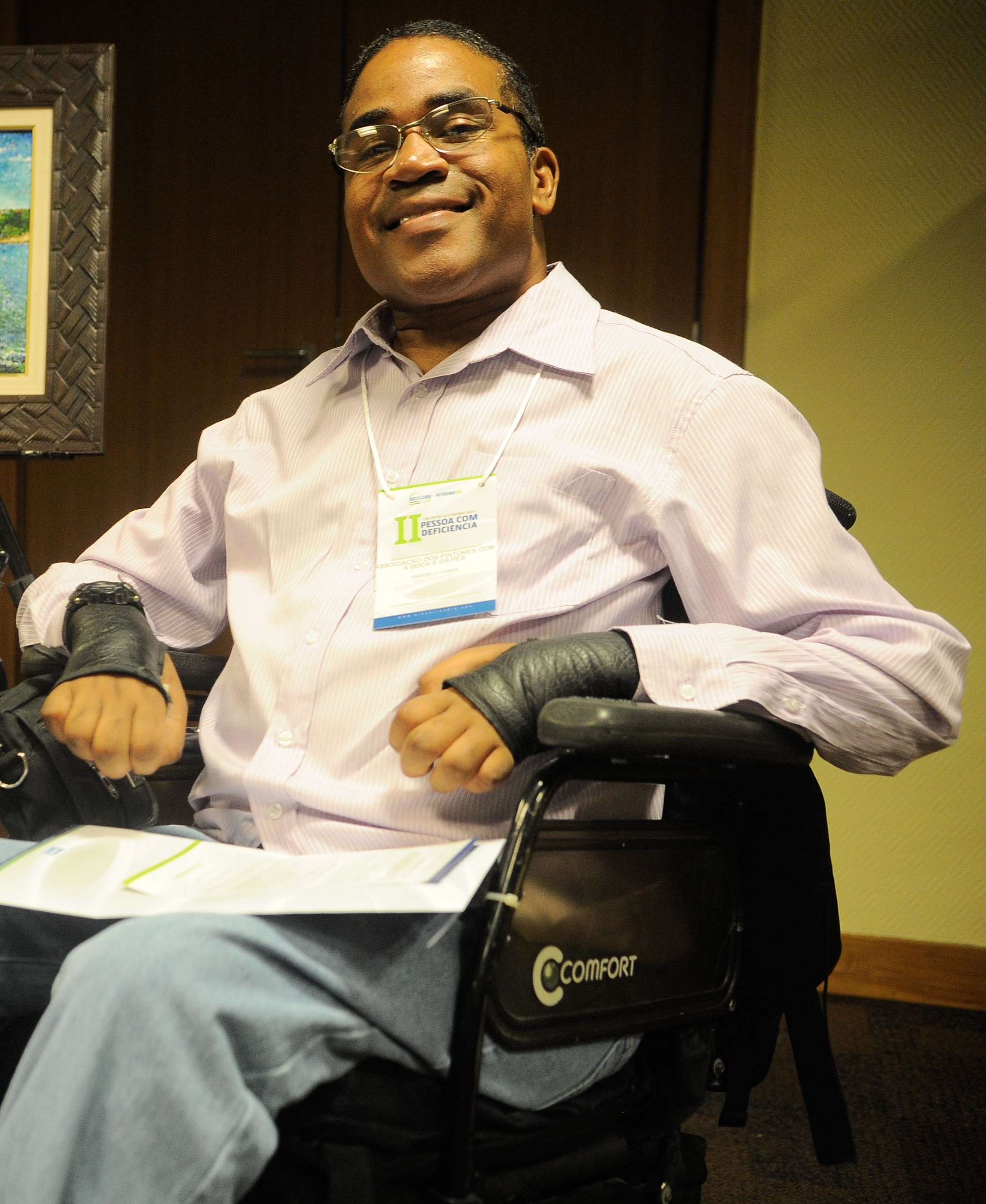 Photo by �Tânia Rêgo/Agência Brasil CCBY3.0